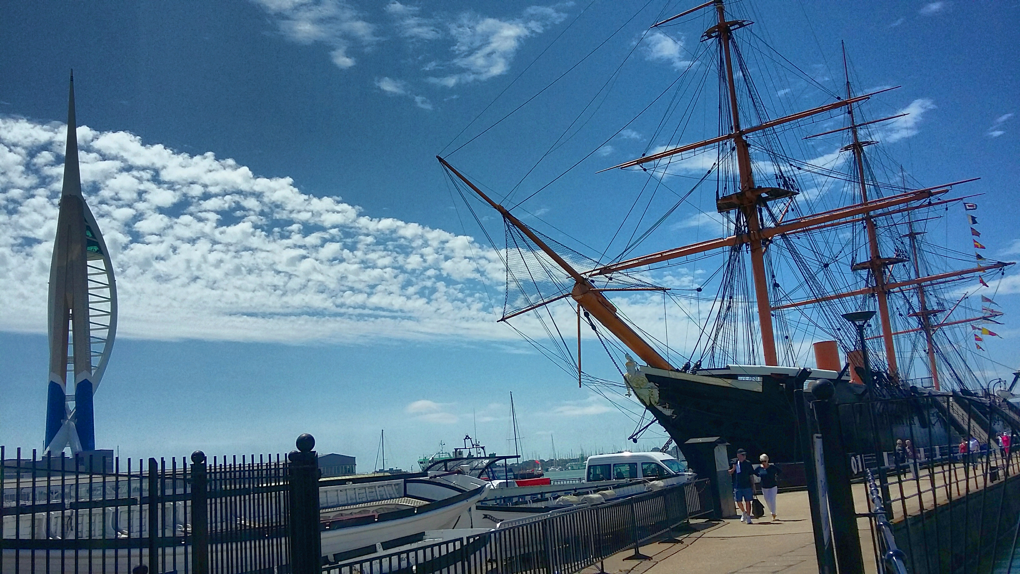 HMS Warrior alongside the Spinnaker Tower (left)